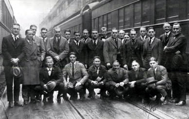 Image of the Washington & Jefferson College 1922 Rose Bowl team.